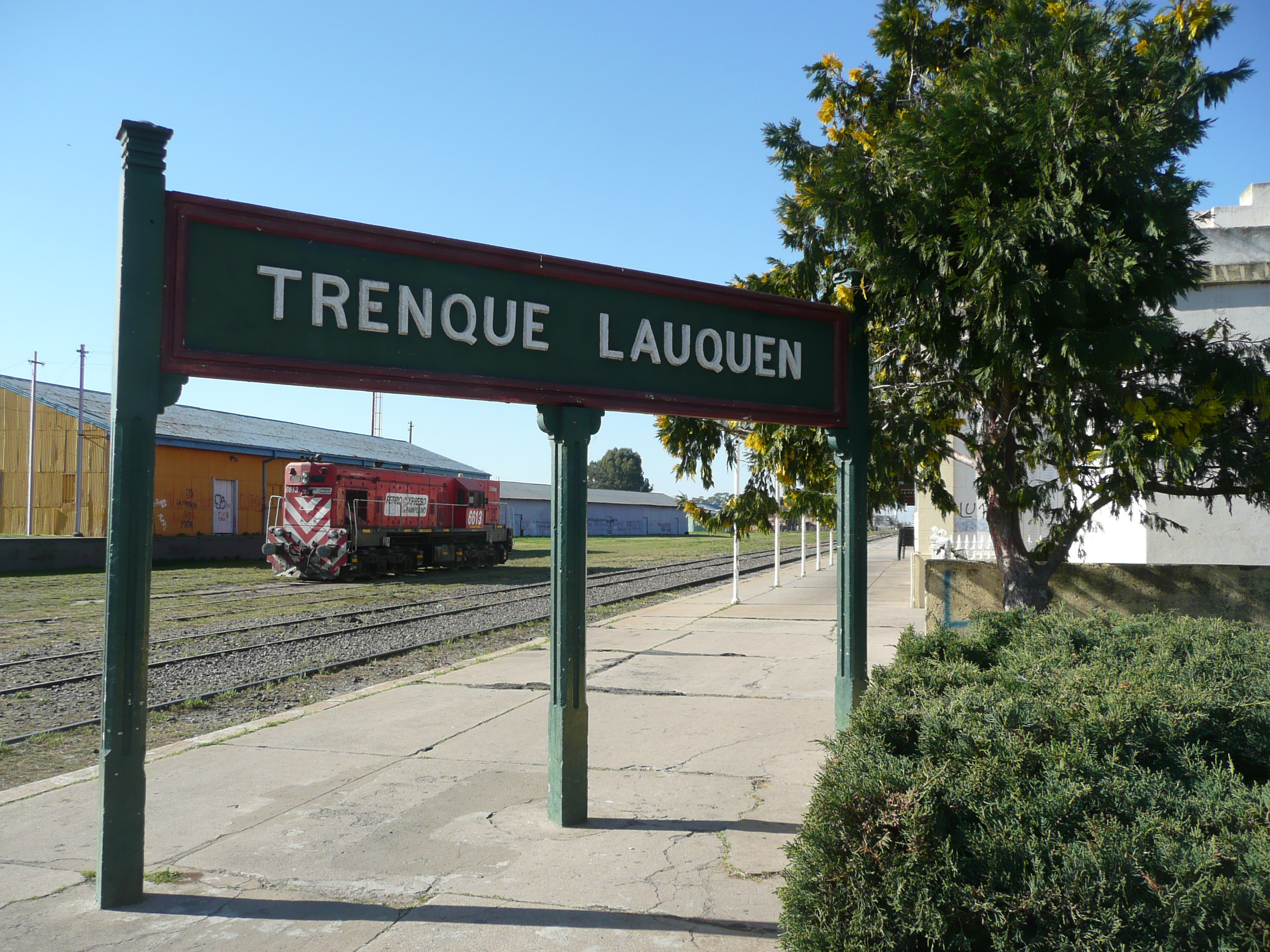 Trenque Lauquen city, Buenos Aires province, Argentina.